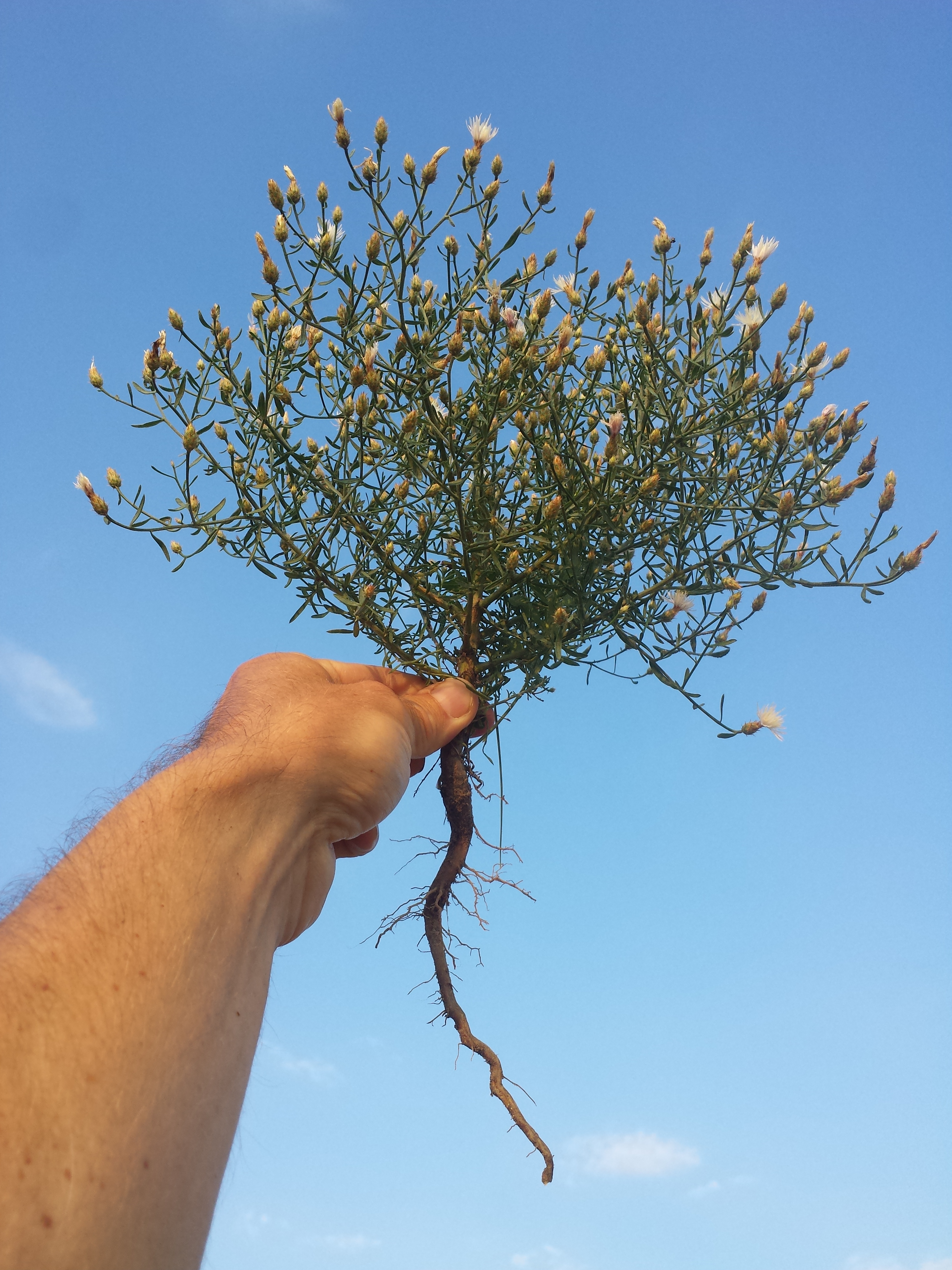 Habitus Taxonym: Centaurea diffusa ss Fischer et al. EfÖLS 2008 ISBN 978-3-85474-187-9 Location: industrial wasteland Grellgasse, Vienna-Floridsdorf - ca. 160 m a.s.l. Habitat: ruderal area